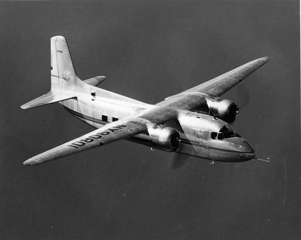 PictionID:42765719 - Title:Lockheed 75 Saturn NX90801 1946 [mfr via RJF] - Catalog:17_000164 - Filename:17_000164.tif - - --------Image from the René Francillon Photo Archive. Having had his interest in aviation sparked by being at the receiving end of B-24s bombing occupied France when he was 7-yr old, René Francillon turned aviation into both his vocation and avocation. Most of his professional career was in the United States, working for major aircraft manufacturers and airport planning/design companies. All along, he kept developing a second career as an aviation historian, an activity that led him to author more than 50 books and 400 articles published in the United States, the United Kingdom, France, and elsewhere. Far from “hanging on his spurs,” he plans to remain active as an author well into his eighties.-------PLEASE TAG this image with any information you know about it, so that we can permanently store this data with the original image file in our Digital Asset Management System.--------------SOURCE INSTITUTION: San Diego Air and Space Museum Archive